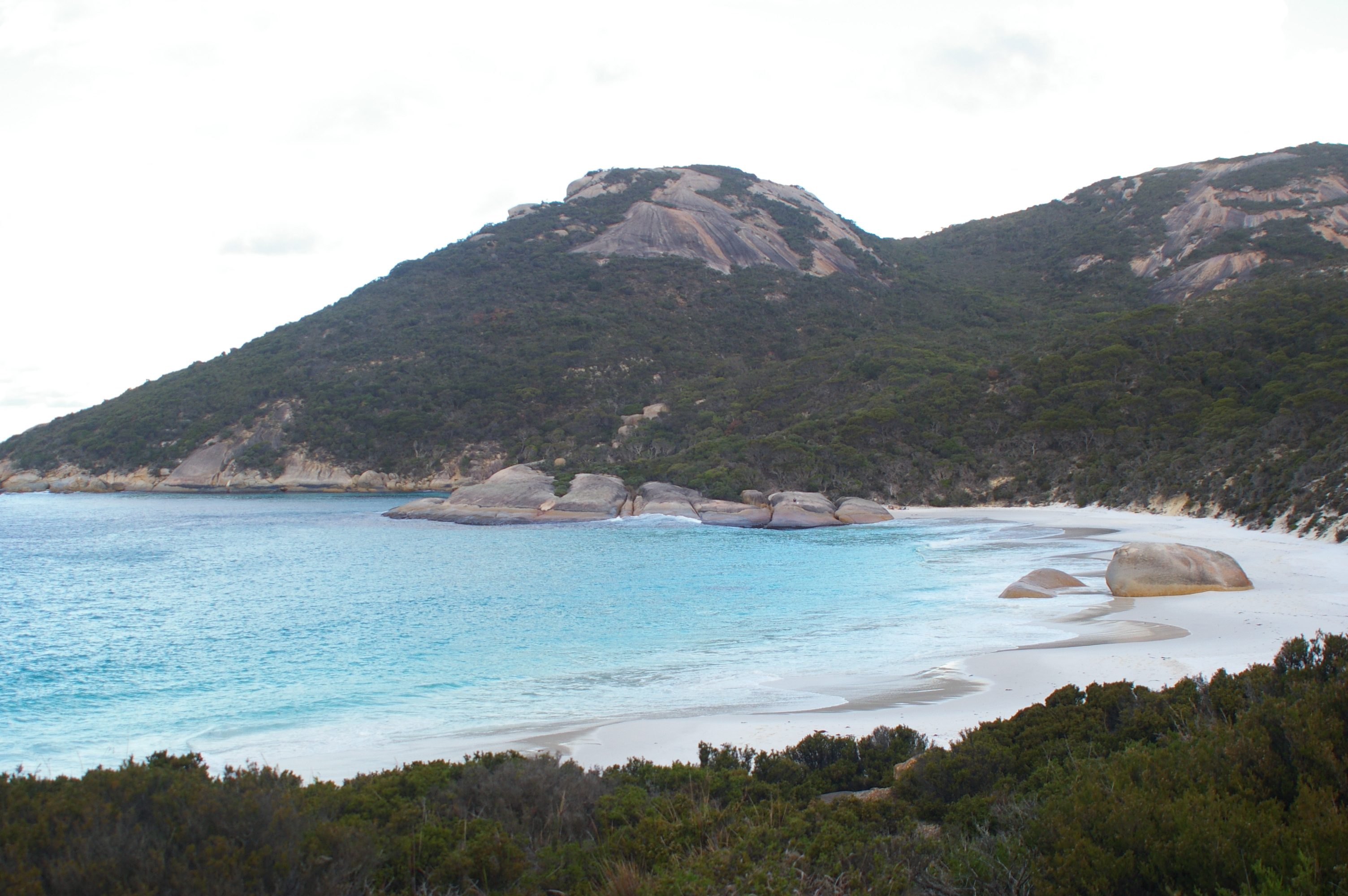 View of Little Beach with the granite headland massif in the background at the Two Peoples Bay Nature Reserve in Albany, Western Australia. Photo taken June 2nd 2007 by Darren Hughes (myself) I release this photo into the public domain for anyone to use Photo taken Little beach looking south over Mount Gardiner.